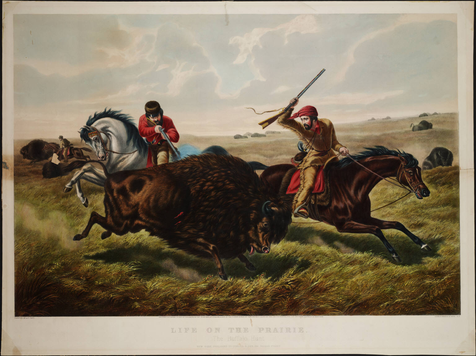 "Life on the Prairie, The Buffalo Hunt," lithograph by Arthur Fitzwilliam Tait, published by Currier & Ives, 152 Nassau Street, New York, New York. Image courtesy of the Yale Collection of Western Americana, Beinecke Rare Book & Manuscript Library.